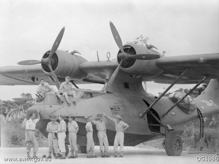 AWM Caption: MADANG, NEW GUINEA. C. 1945-01. IN 1944-12 THE STORY OF THE DRAMATIC RESCUE OF AN AMERICAN AIR-CREW WHICH HAD CRASH-LANDED IN THE SEA IN ENEMY-CONTROLLED WATERS NEAR BORAM IN NORTH EAST NEW GUINEA WAS TOLD. THE CAPTAIN OF THE RESCUING CATALINA FLIGHT LIEUTENANT (FLT LT) I. J. L. WOOD, IPSWICH, QLD, RECEIVED AN IMMEDIATE AWARD OF THE DFC FOR HIS SKILL AND GALLANTRY. WITH HIS CREW, AND AIRCRAFT OF NO. 111 AIR SEA RESCUE FLIGHT RAAF, LEFT TO RIGHT: FLT LT WOOD, FLIGHT SERGEANT (FLT SGT) D. N. BEATON, WARBURTON, VIC, FLYING OFFICER B.W. BENTLEY, MAGILL, SA, WARRANT OFFICER A. V. DAWSON, NAROGIN, WA, FLT SGT P. FLETCHER, SOUTHPORT, QLD, FLT SGT S. BENWICK, BANKSTOWN, NSW, SERGEANT C. THORSBOURNE, BRISBANE, QLD, FLT SGT P. S. LINDSAY, CREMORNE, NSW AND FLT SGT S. A. CARWARDINE, KUKERIN, WA.